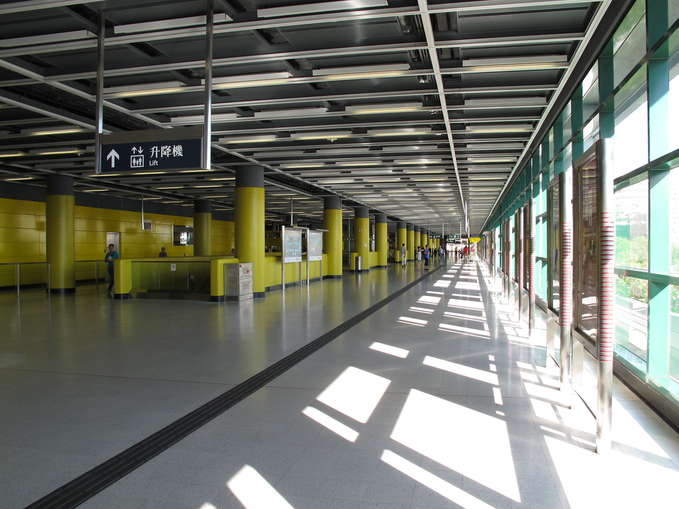 MTR Yau Tong station concourse